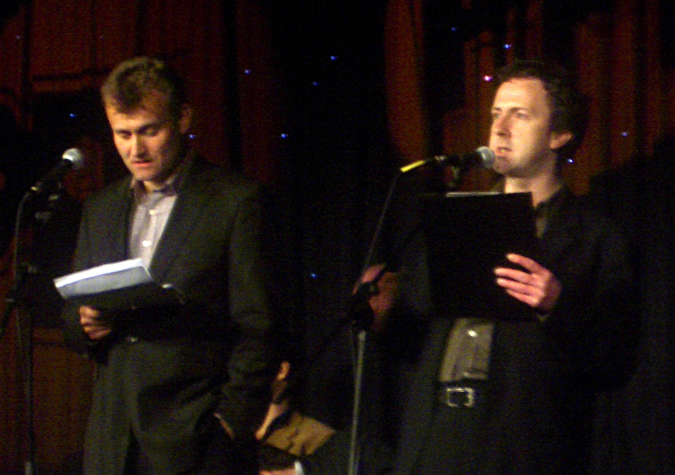 Hugh Dennis (left) and Steve Punt (right) performing The Now Show at the 2005 Radio FestivalThe Now Show at the 2005 Radio Festival